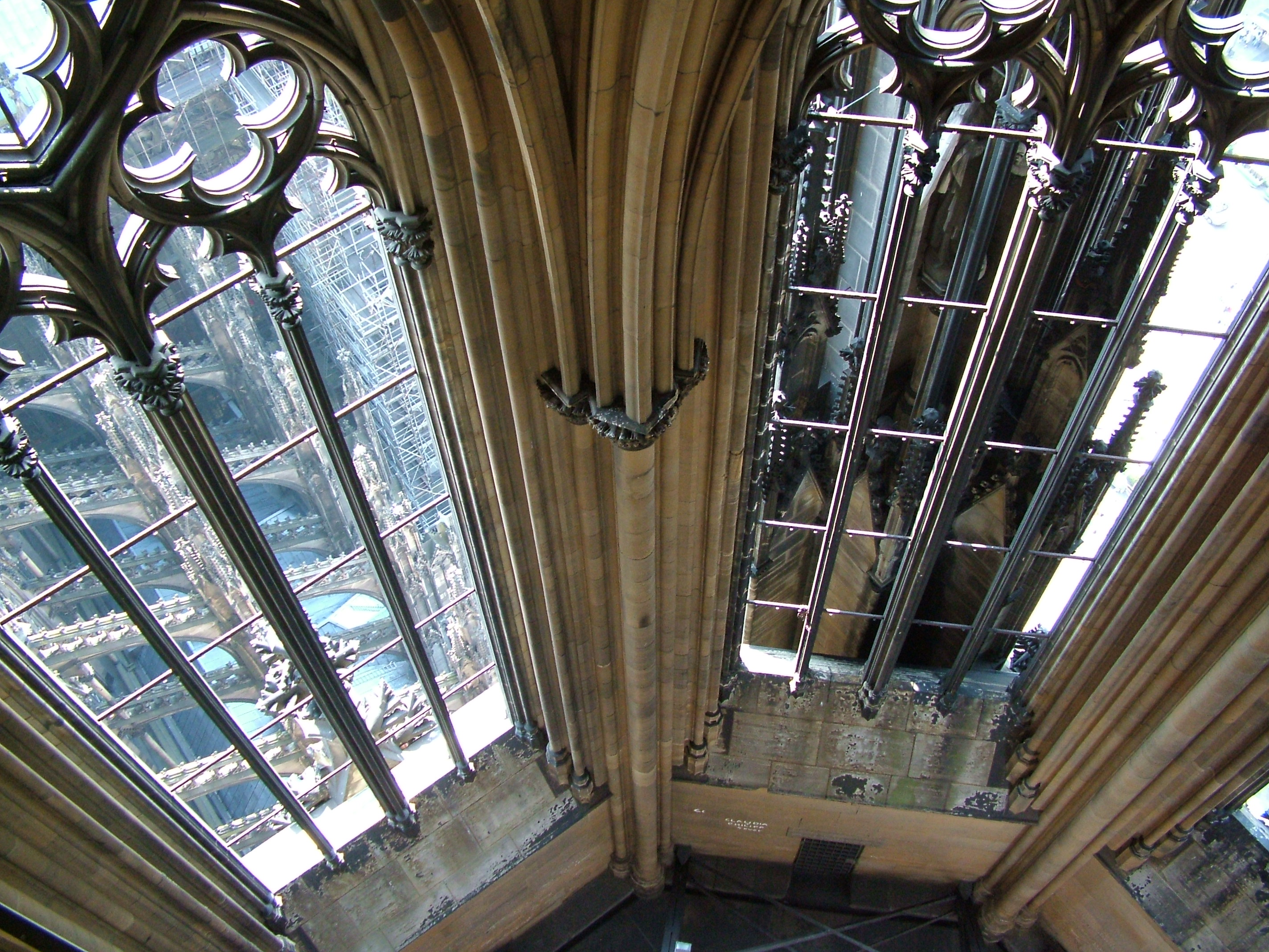 Cologne Cathedral, view from inside the right tower